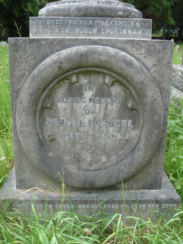 Memorial to Percy E. Lambert in Brompton Cemetery, London.